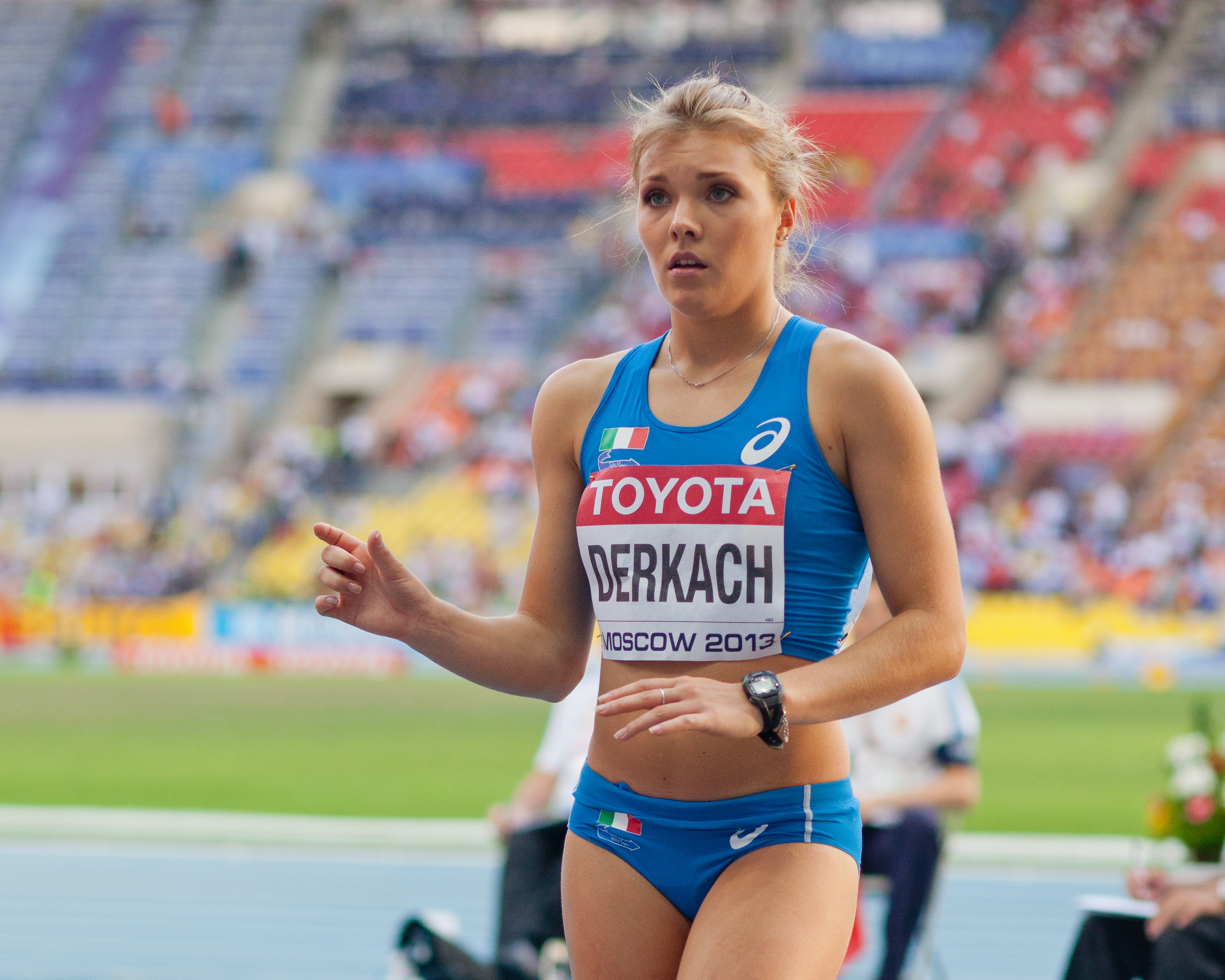 Dariya Derkach during 2013 World Championships in Athletics in Moscow.